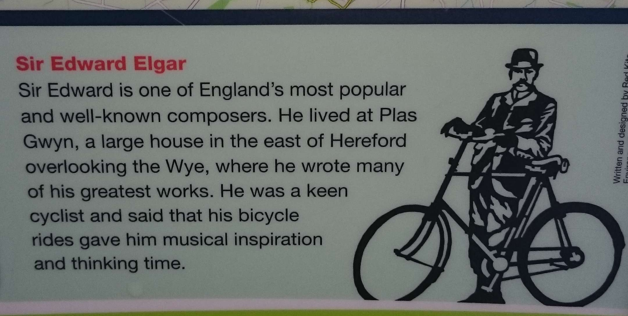 Portrait bench plaque description on Sir Edward Elgar